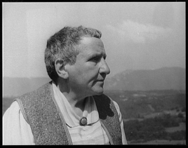 Title: Portrait of Gertrude Stein, Biliguin Abstract/medium: 1 photographic print : gelatin silver.